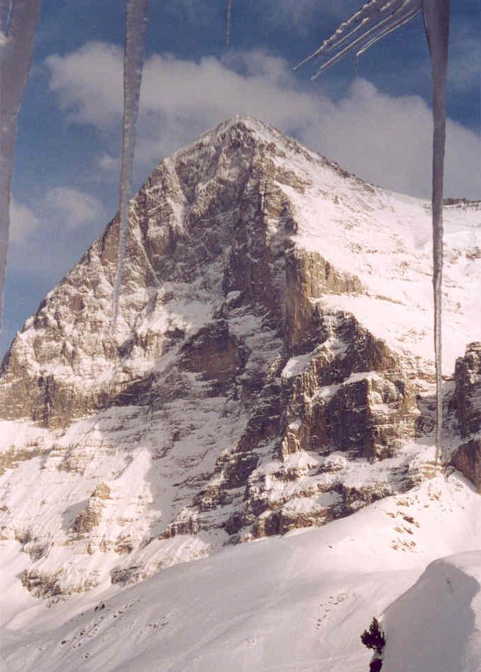 The Eiger north face as seen from the Kleine Scheidegg, Canton of Berne, Switzerland.